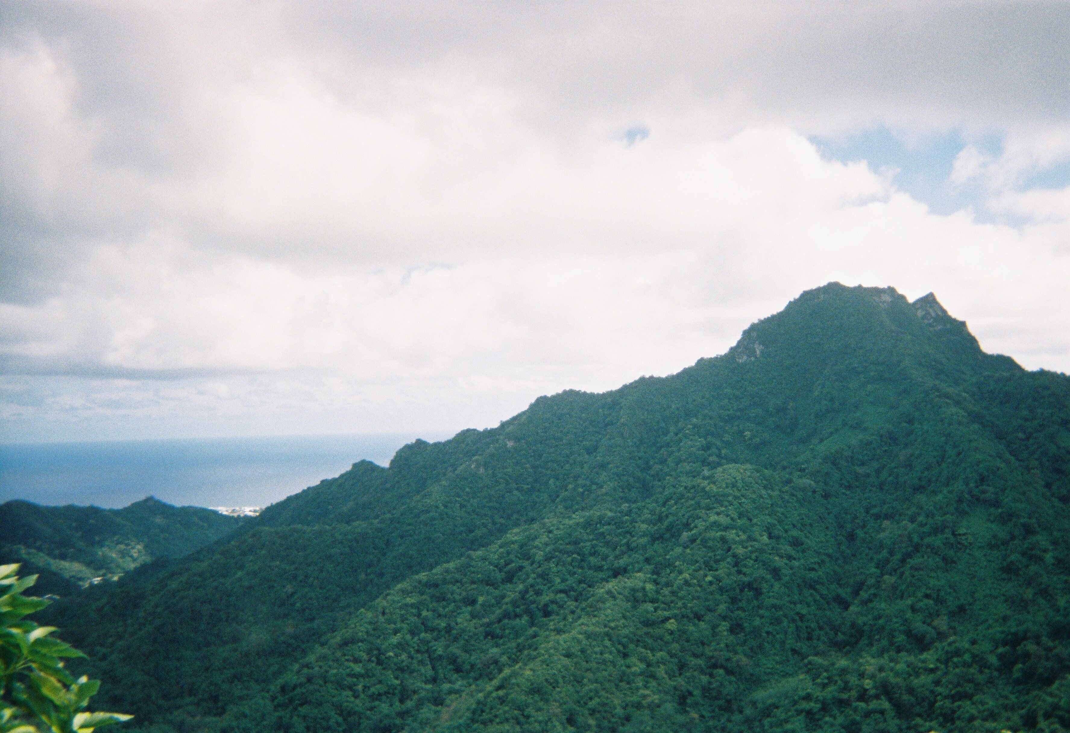 View from the Te Rua Manga (The Needle) lookout in the Cook Islands